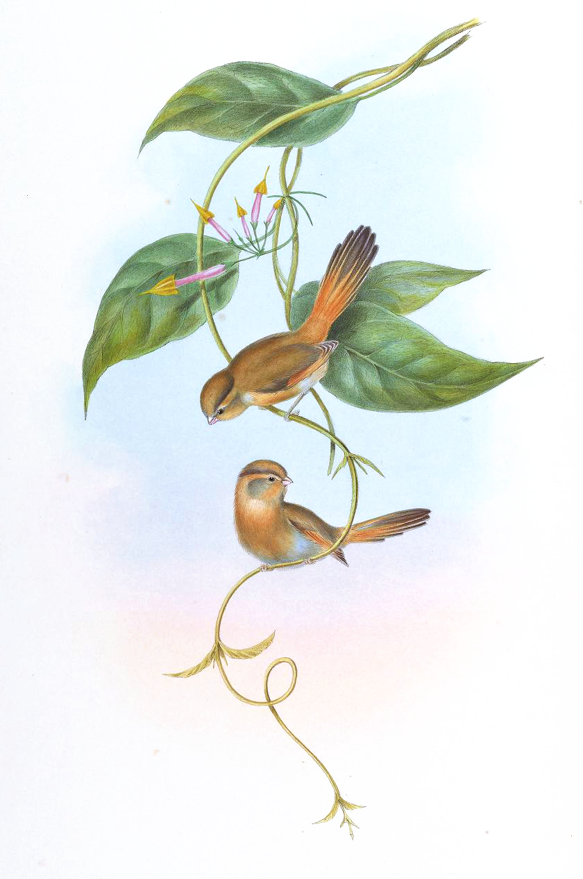 Suthora fulvifrons = Paradoxornis fulvifrons = Suthora fulvifrons